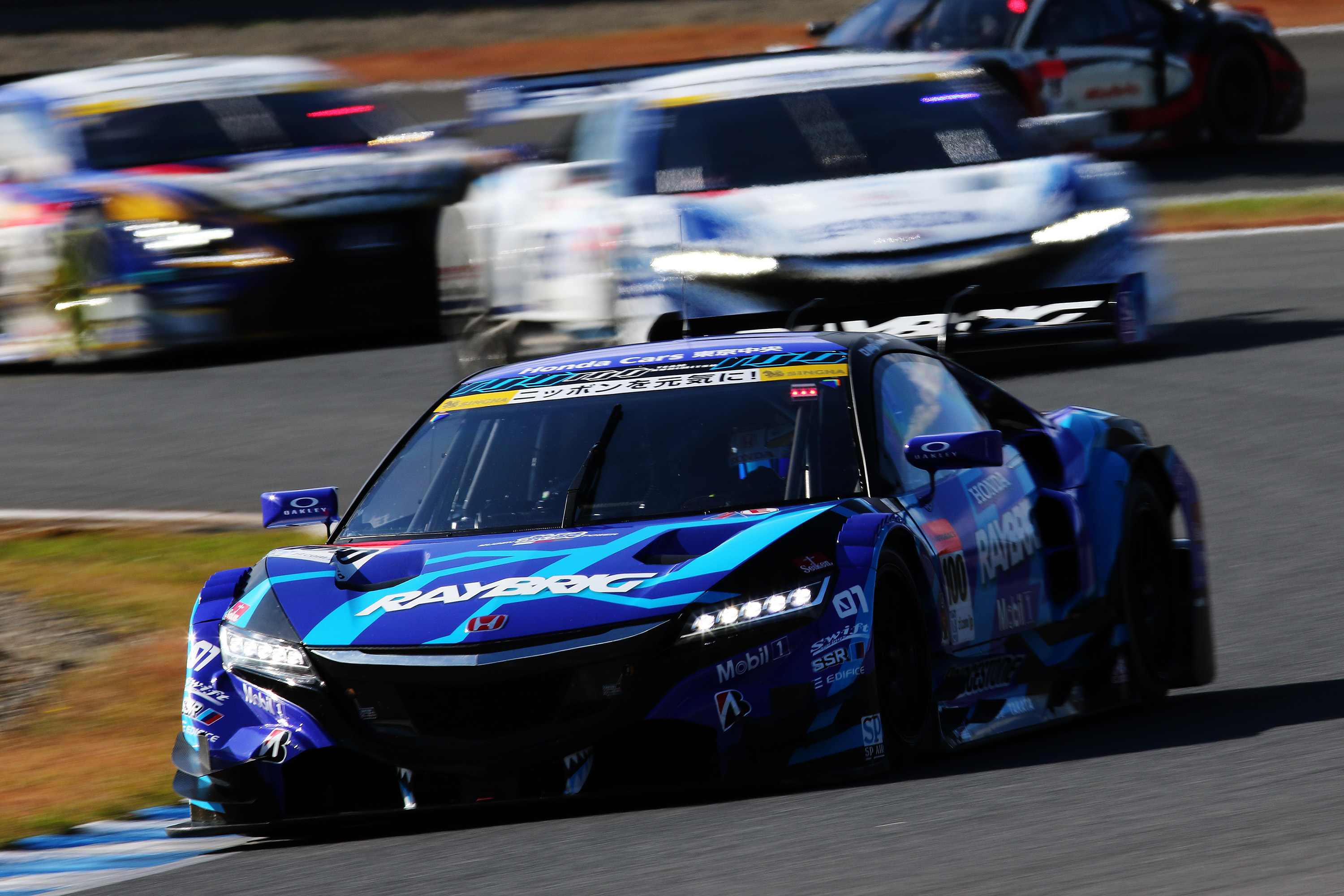 2016.11.12 SUPER GT Rd.3 Final TwinRing MOTEGI TEAM KUNIMITSU 100 RAYBRIG NSX CONCEPT-GT [7D2_5376ks]